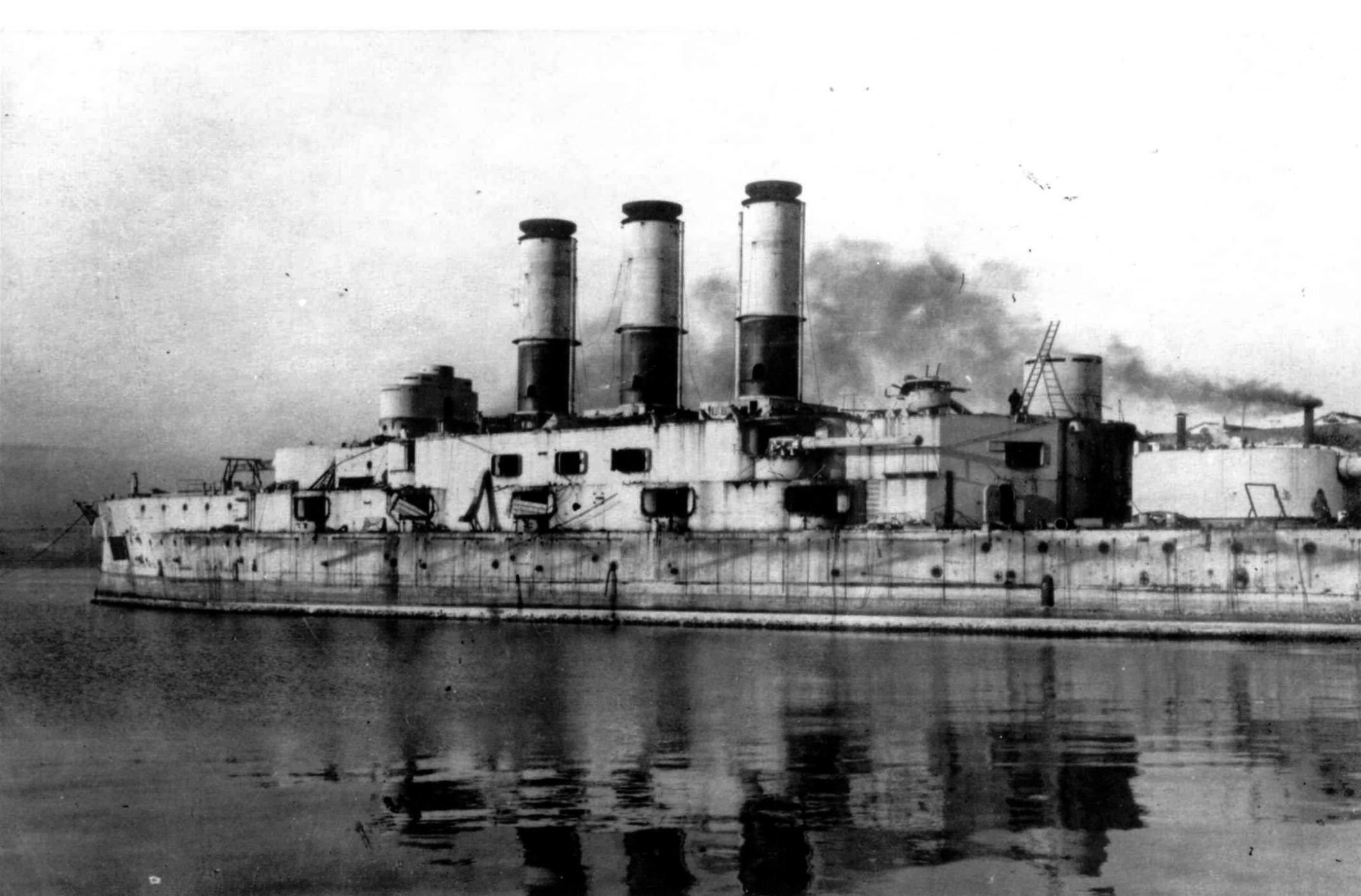 Soviet battleship Revolyutsiya, 1922.